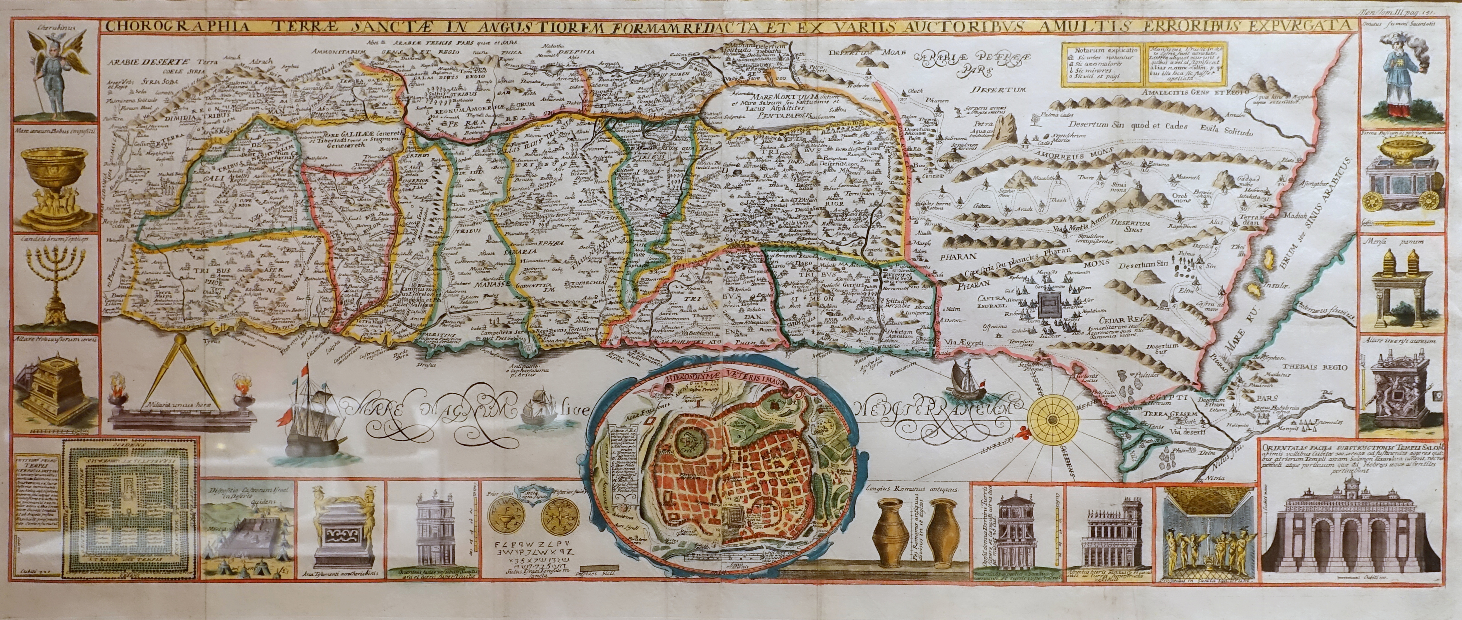 Exhibit in the Jordan Schnitzer Museum of Art, University of Oregon - Eugene, Oregon, USA.